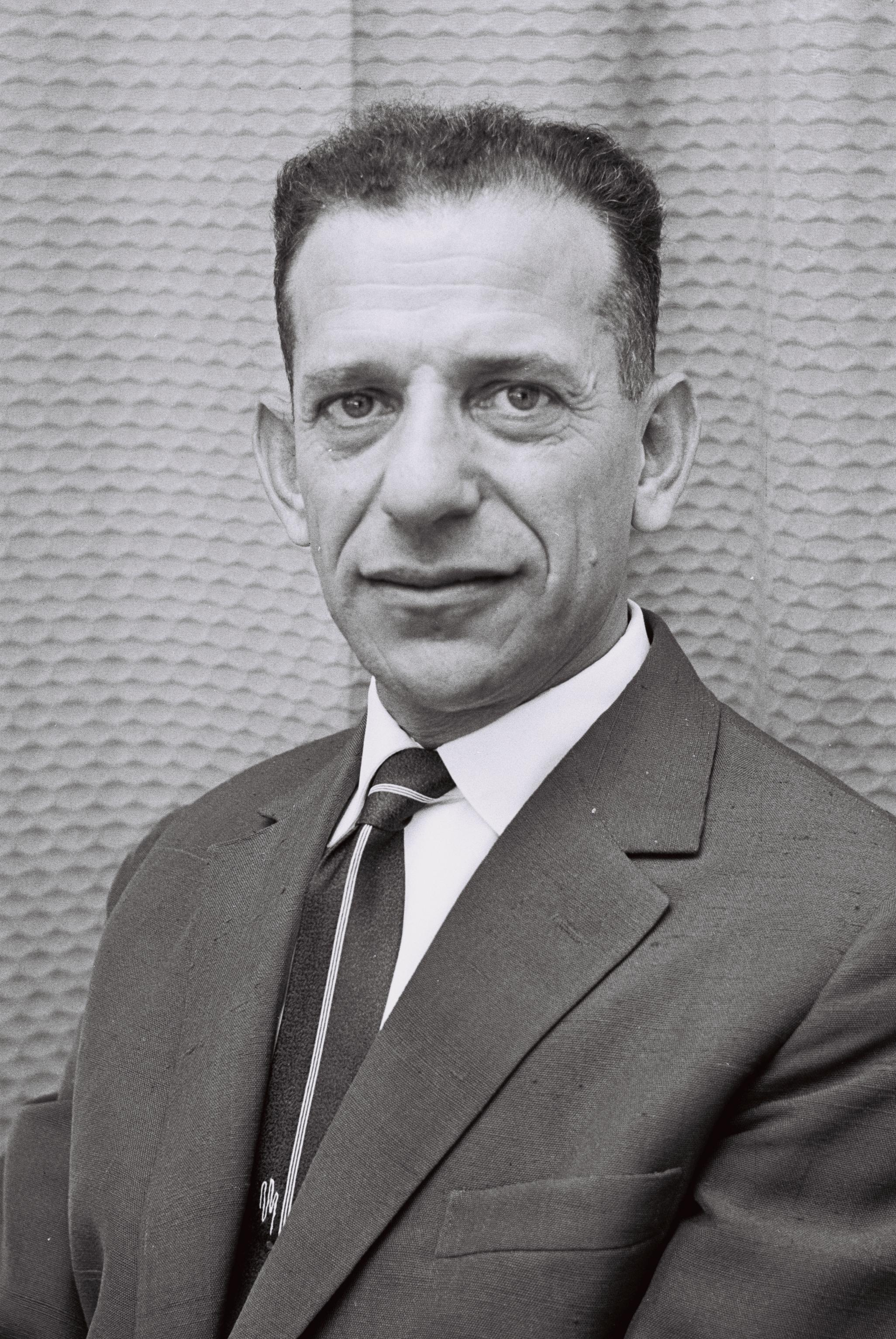 Arie Oron Israeli Ambassador to Venezuela